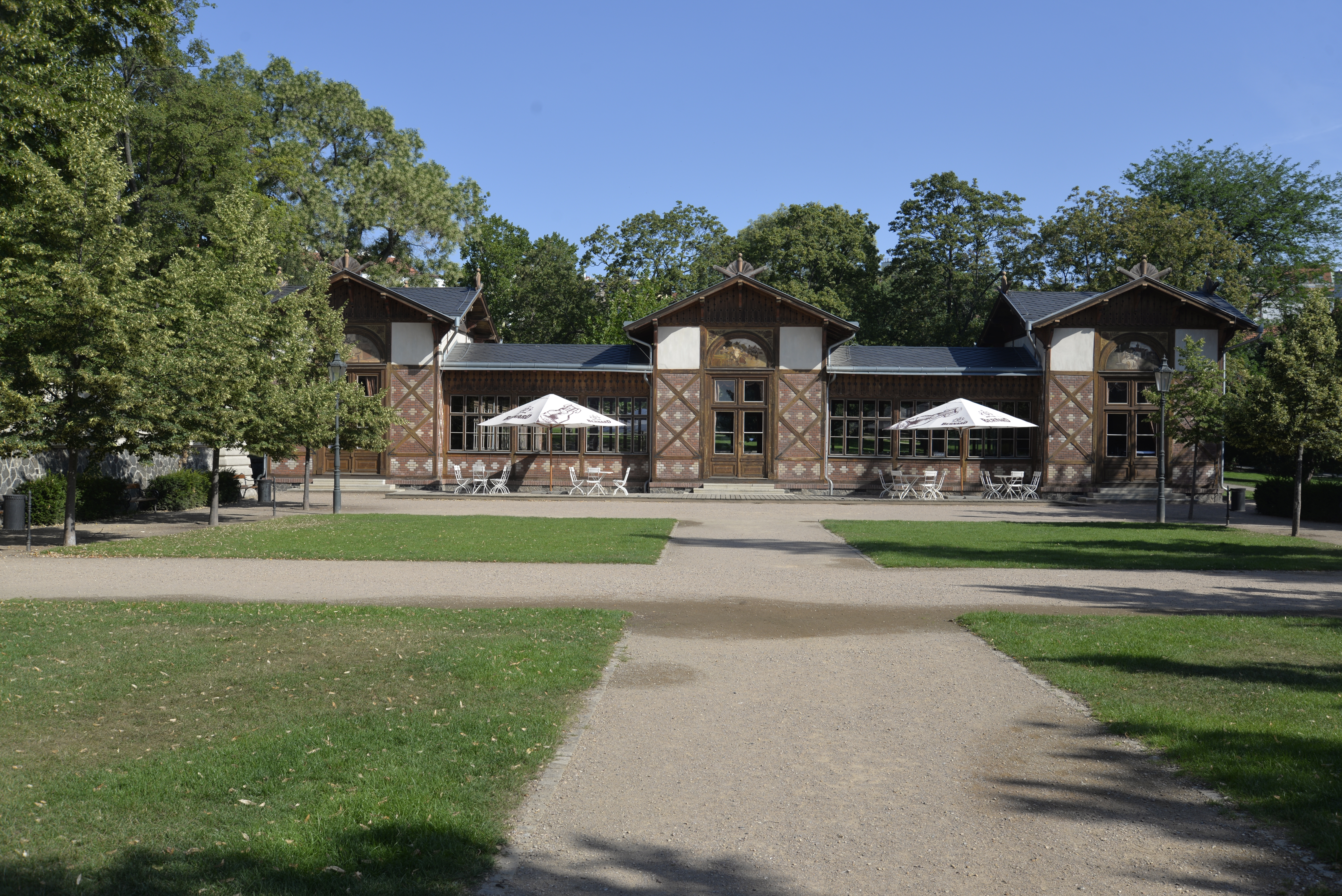 Pavilon in Havlíčkovy sady in Prague